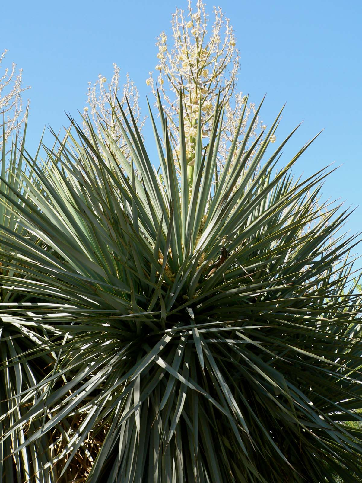 Photo of Yucca rigida (blue yucca) at the Springs Preserve garden in Las Vegas, Nevada